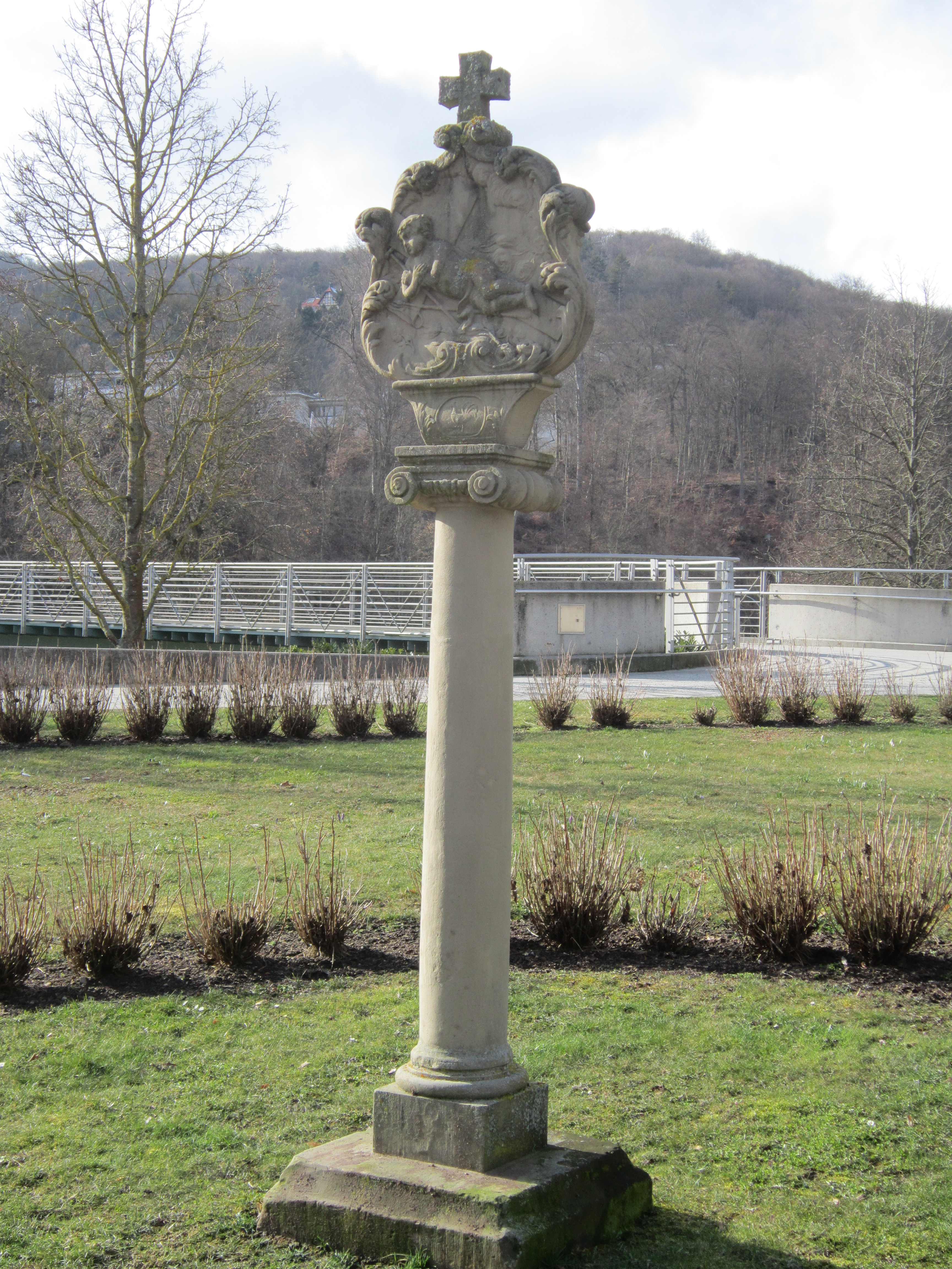 Wayside shrine in the German spa town of Bad Kissingen in Lower Franconia (Bavaria) (Address: Balthasar-Neumann-Promenade)